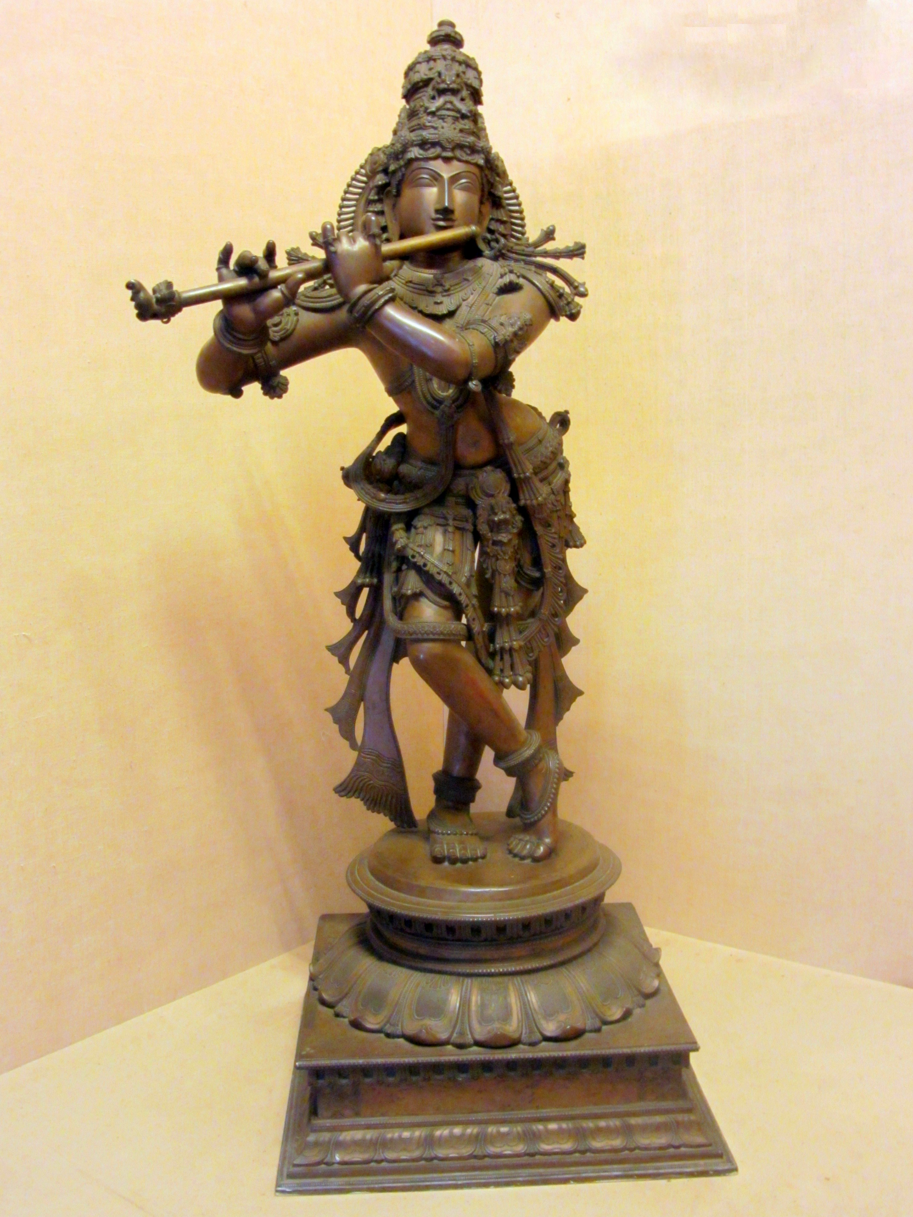 Bronze figure of Krishna with a flute in hand